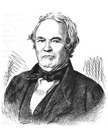 Elijah Spencer, U.S. Congressman from Benton, New York